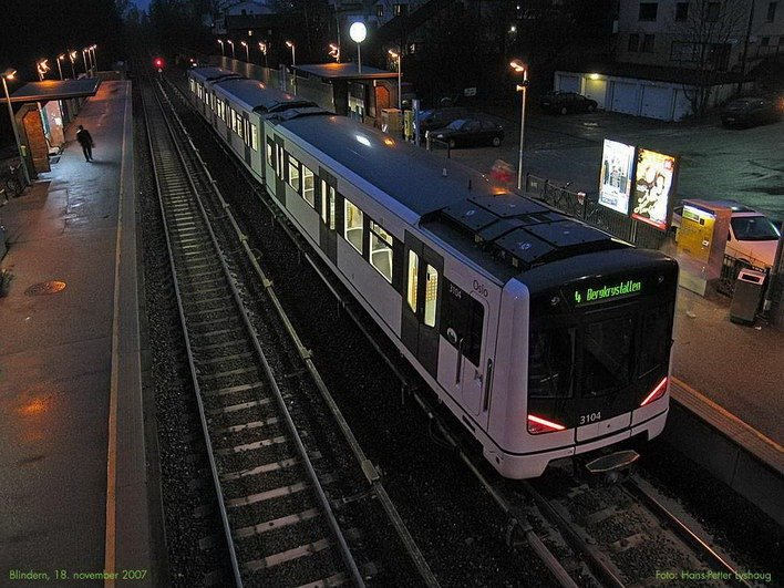 Lambertseter Line of the Oslo Metro.